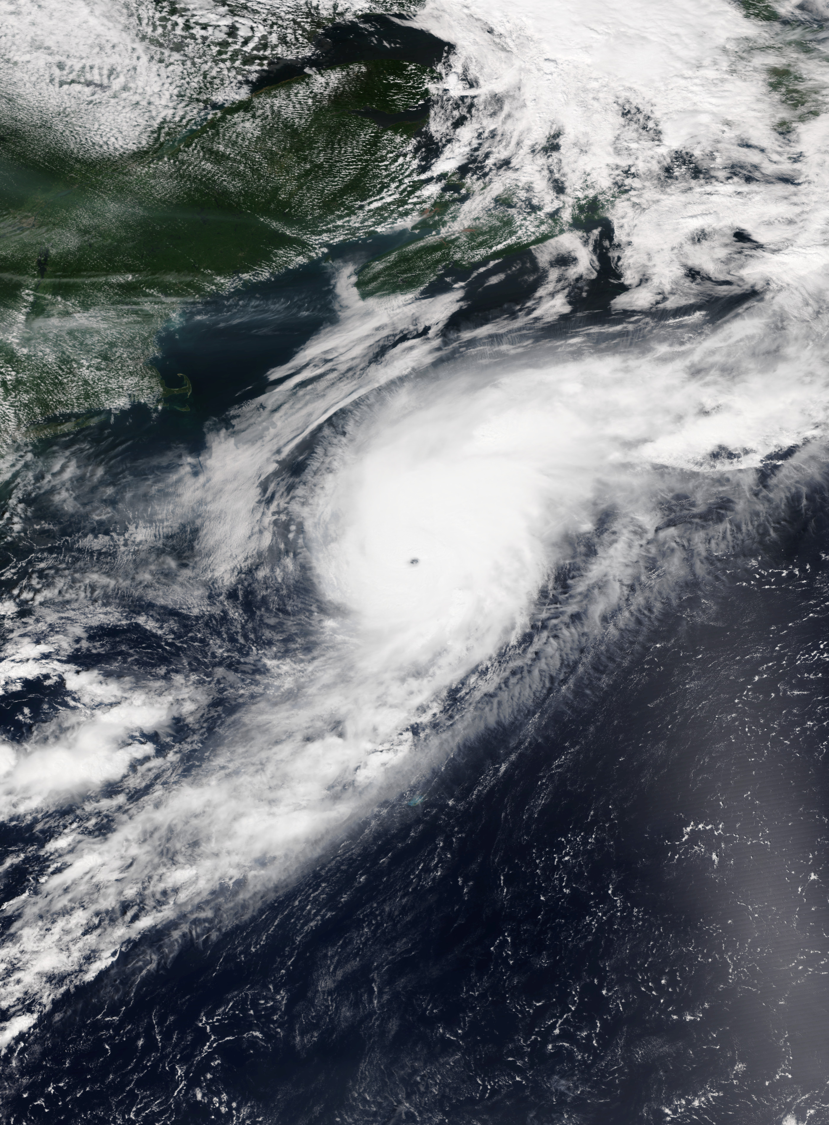 Hurricane Gert (08L) during peak intensity on August 16, 2017